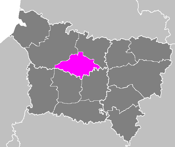 Maps of arrondissements and cantons of France: Arrondissement de Montdidier.PNG